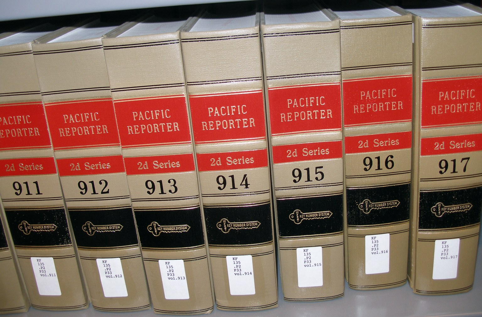 The 2nd series of the Pacific Reporter, the reporter which covers federal and state cases decided in the western part of the United States. It is part of Thomson West's National Reporter System. Photographed at a library in San Jose.